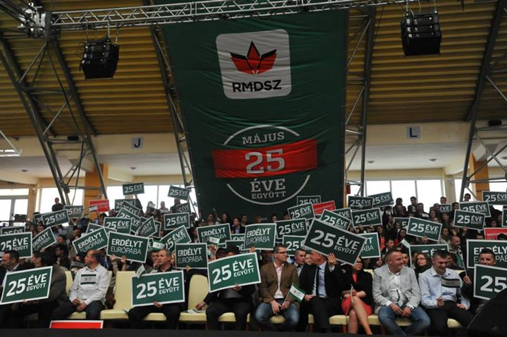 RMDSZ 25